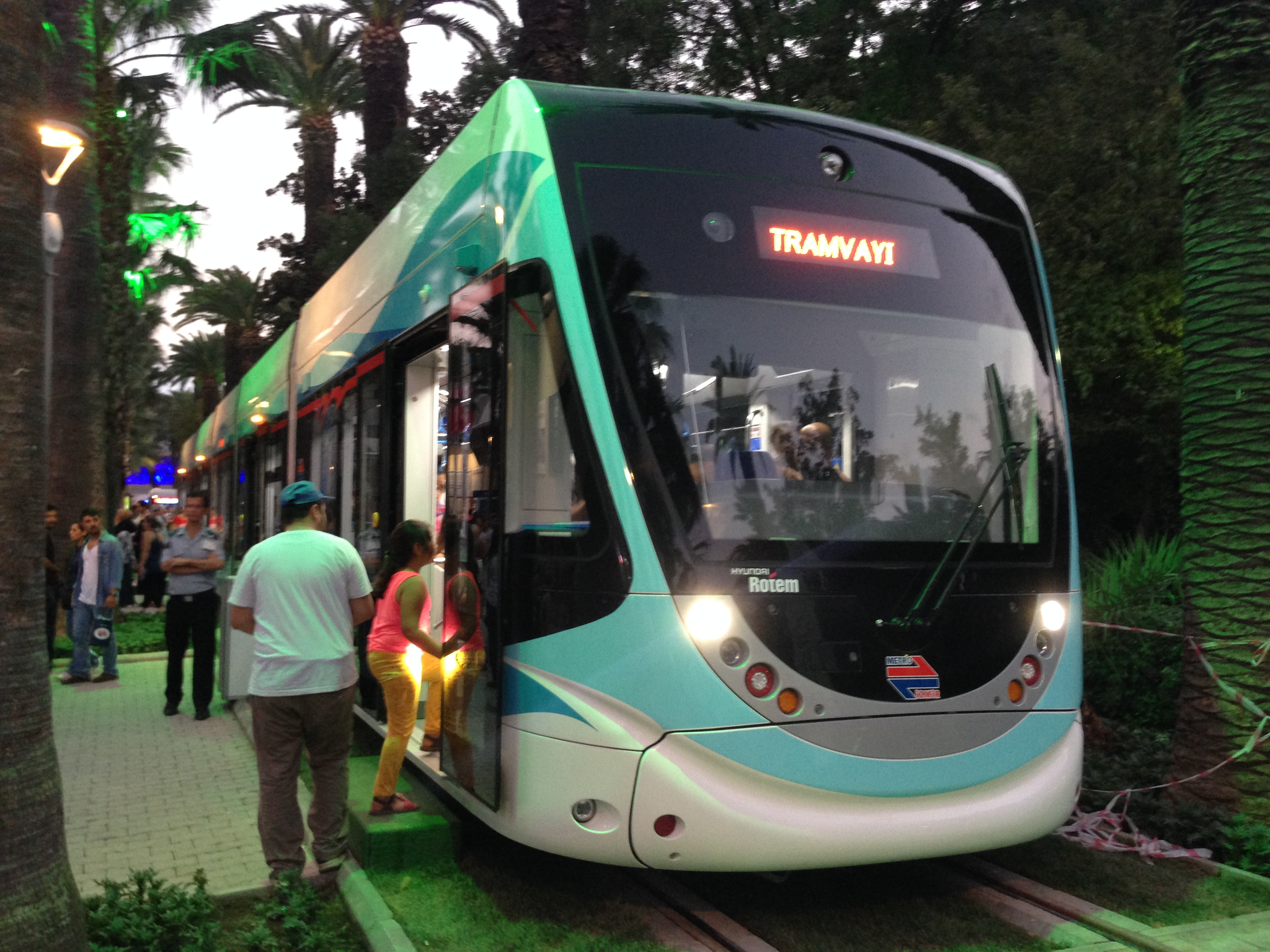 A new Izmir Tram vehicle at the Izmir International Fair in 2016.